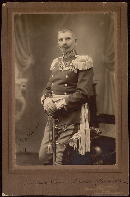 General major Petko Stamov Caklev